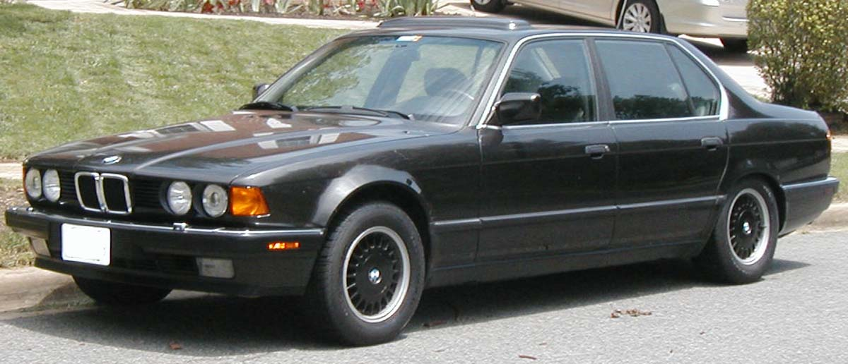 1987-1994 BMW 7-Series photographed in USA.